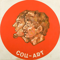 sotsart